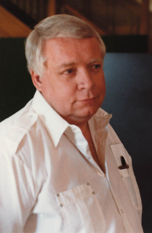 Algis J. Budrys, science fiction writer, editor, critic and teacher, holding class at the 1985 Clarion Science Fiction Writing Workshop at Michigan State University, East Lansing, Michigan.